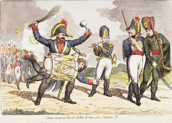 Satire on Napoleon's exile to Elba. (British political cartoon)